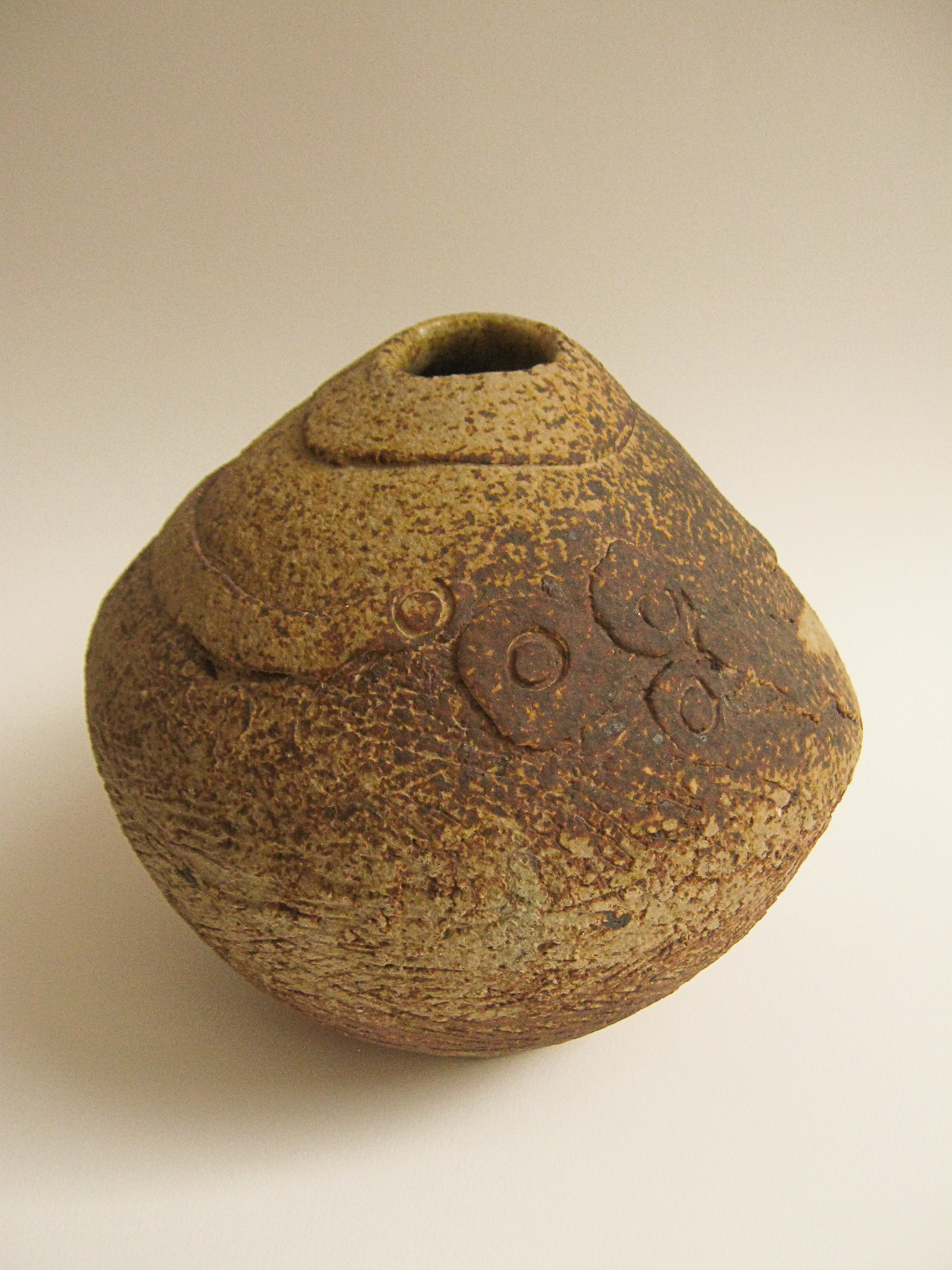 Stoneware spheroidal vase by Ian Sprague Australia 1970s; photographed at St Kilda Victoria 13 March 2016